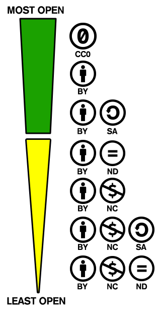 Ordering of Creative Commons licenses from most to least open